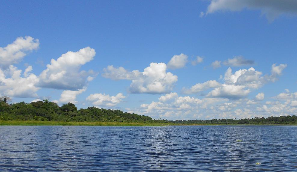 Tapiche River, Loreto Region — northeastern Perú. Tributary of the Amazon River.